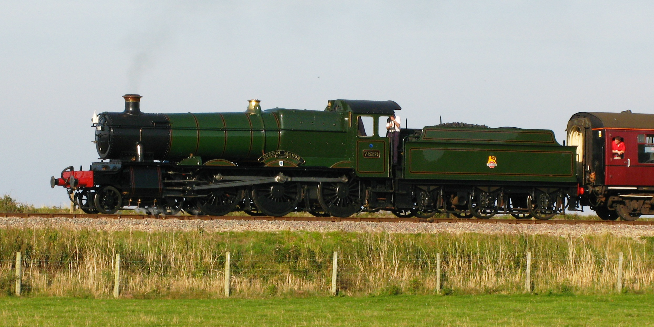 Newly restored 7828 (temporarily carrying Norton Manor nameplates) runs along the coast at Blue Anchor on the West Somerset Railway.